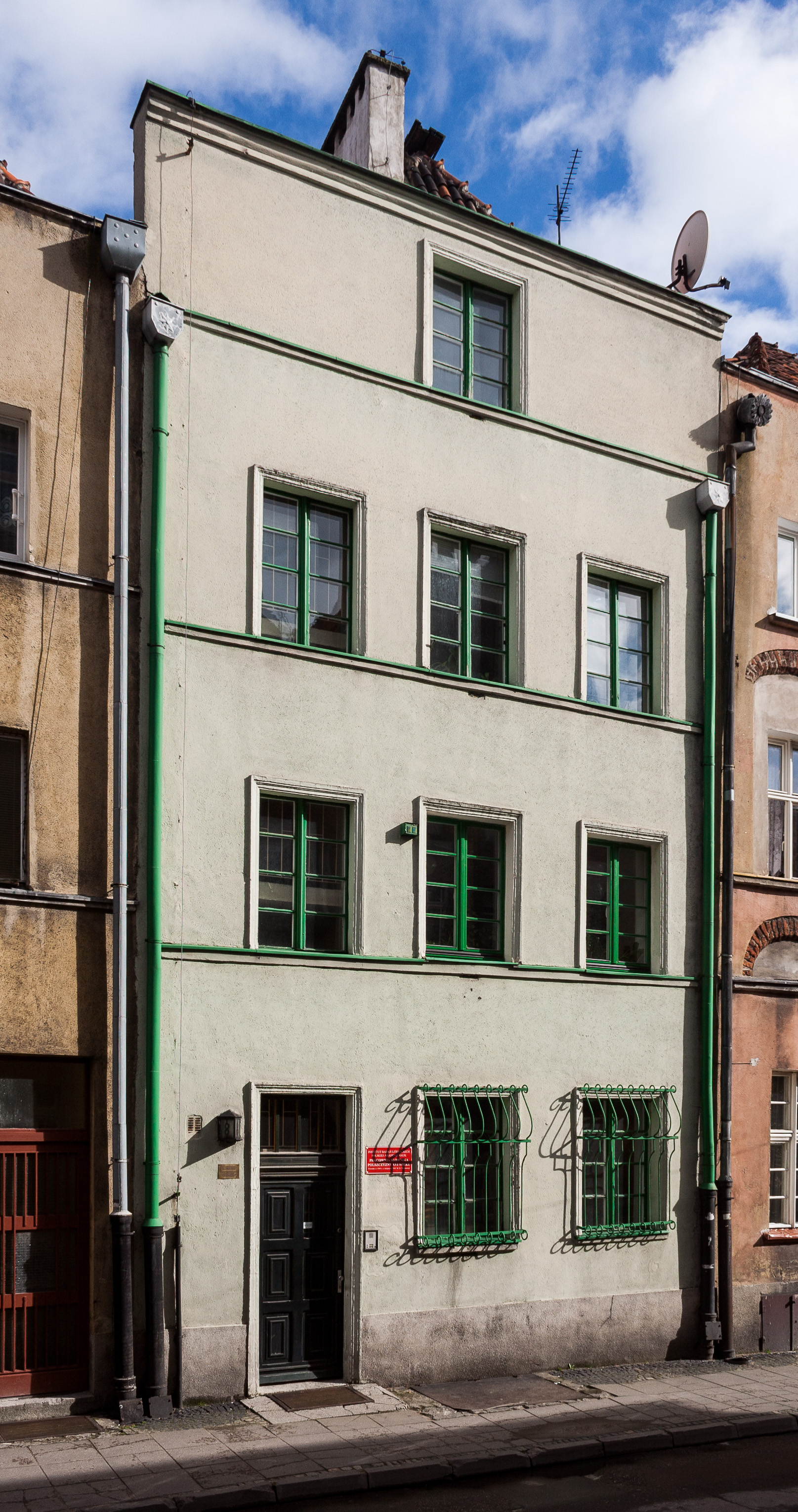 House at 8 Piekary Str. in Toruń.